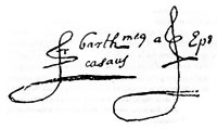 Image